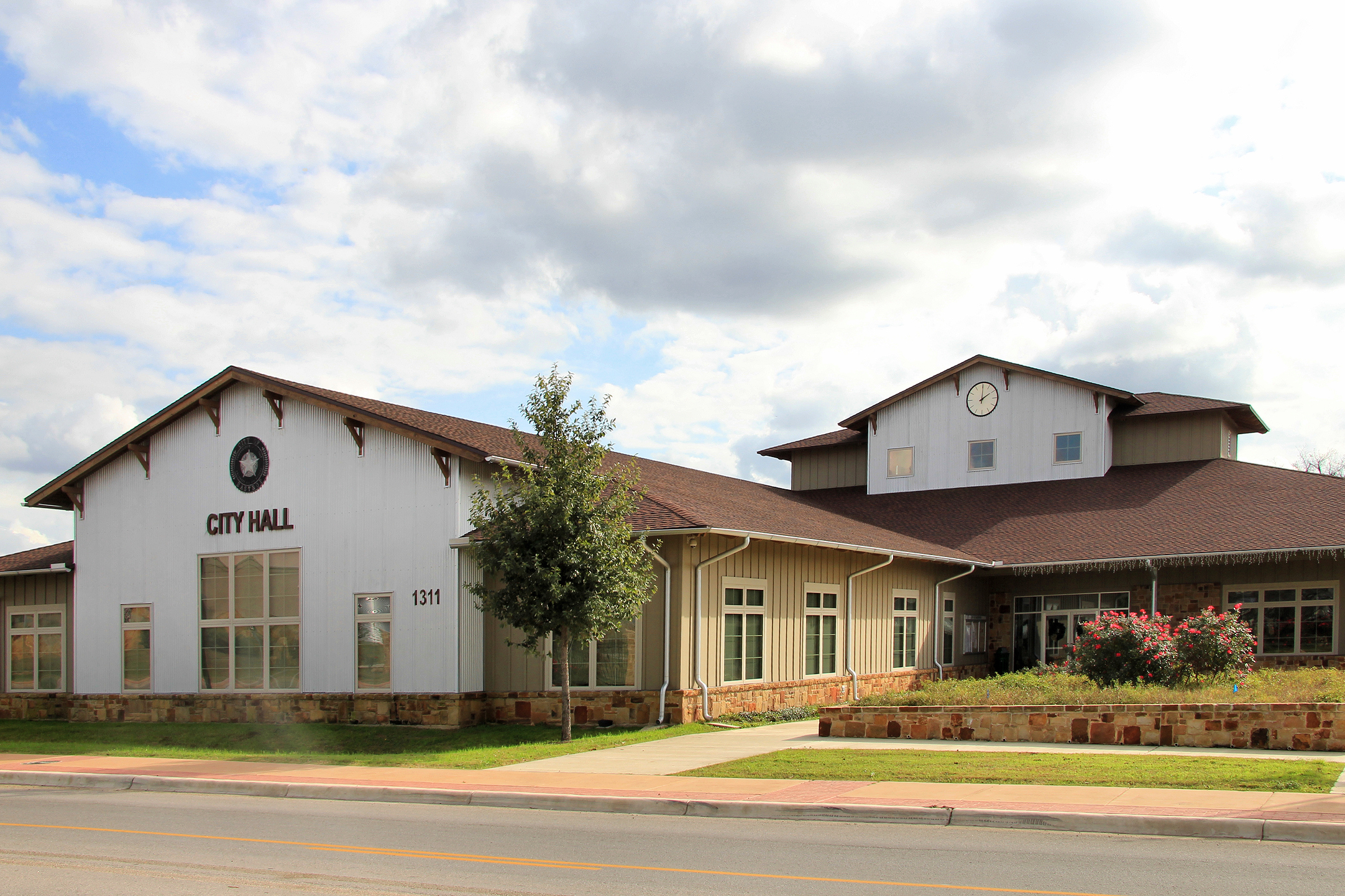 Bastrop, Texas City Hall